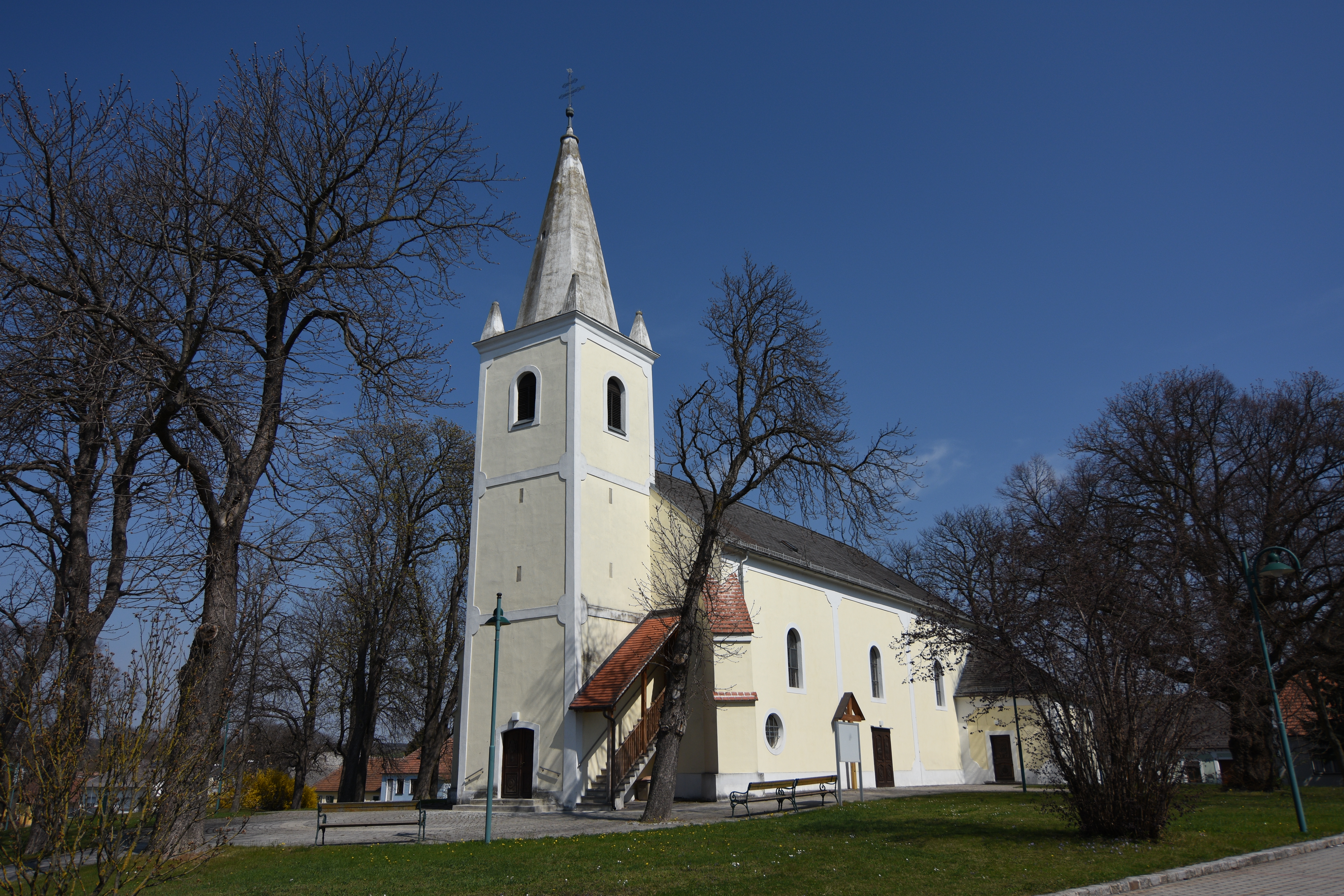 Church Großwarasdorf